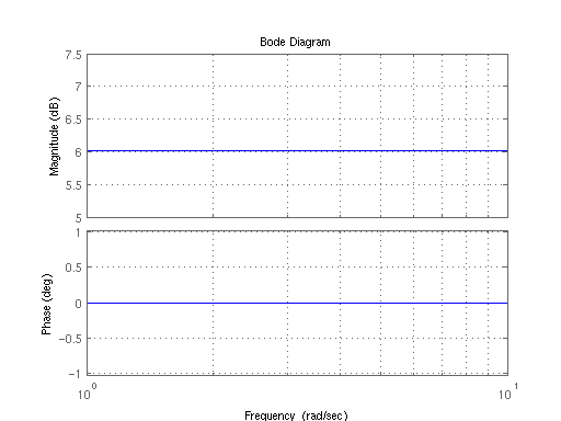 Bode plot of a P controller (K = 2)